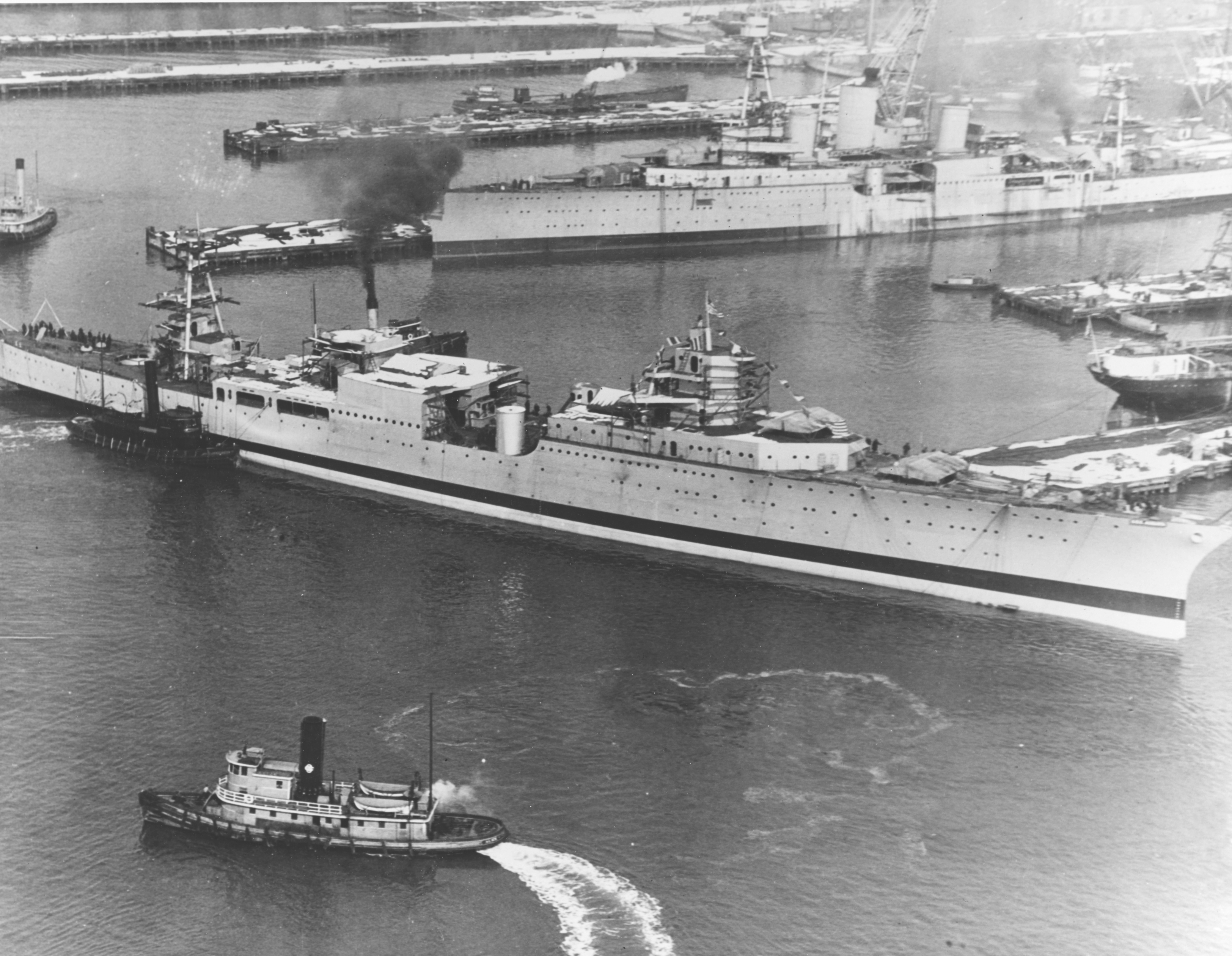 View of the launching of the U.S. Navy heavy cruiser USS Augusta (CA-31), at Newport News Shipbuilding and Dry Dock Company, Norfolk, Virginia (USA), on 1 February 1930. Note USS Houston (CA-30) in background (upper right) fitting out in the same yard.